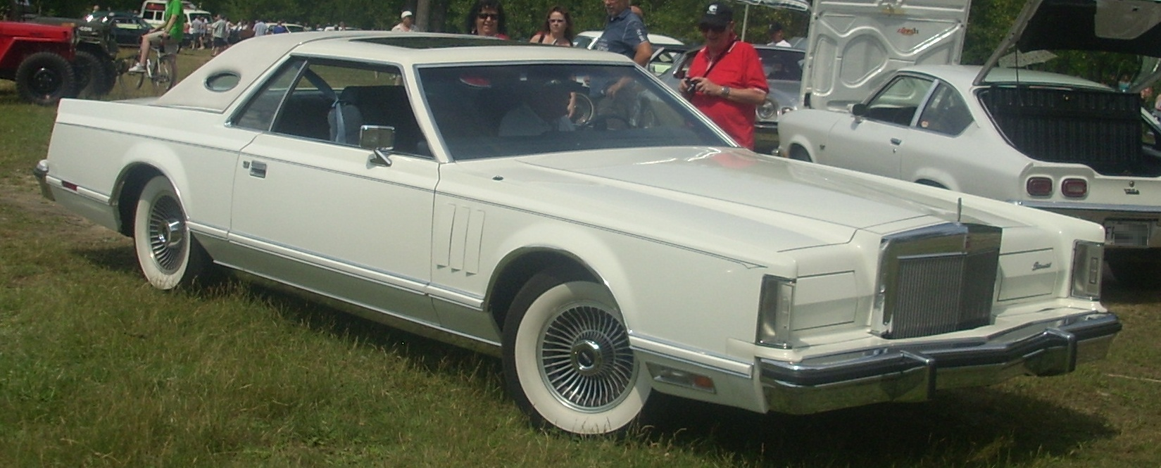 Lincoln Continental Mark V photographed in Laval, Quebec, Canada at Auto classique Laval 2010.